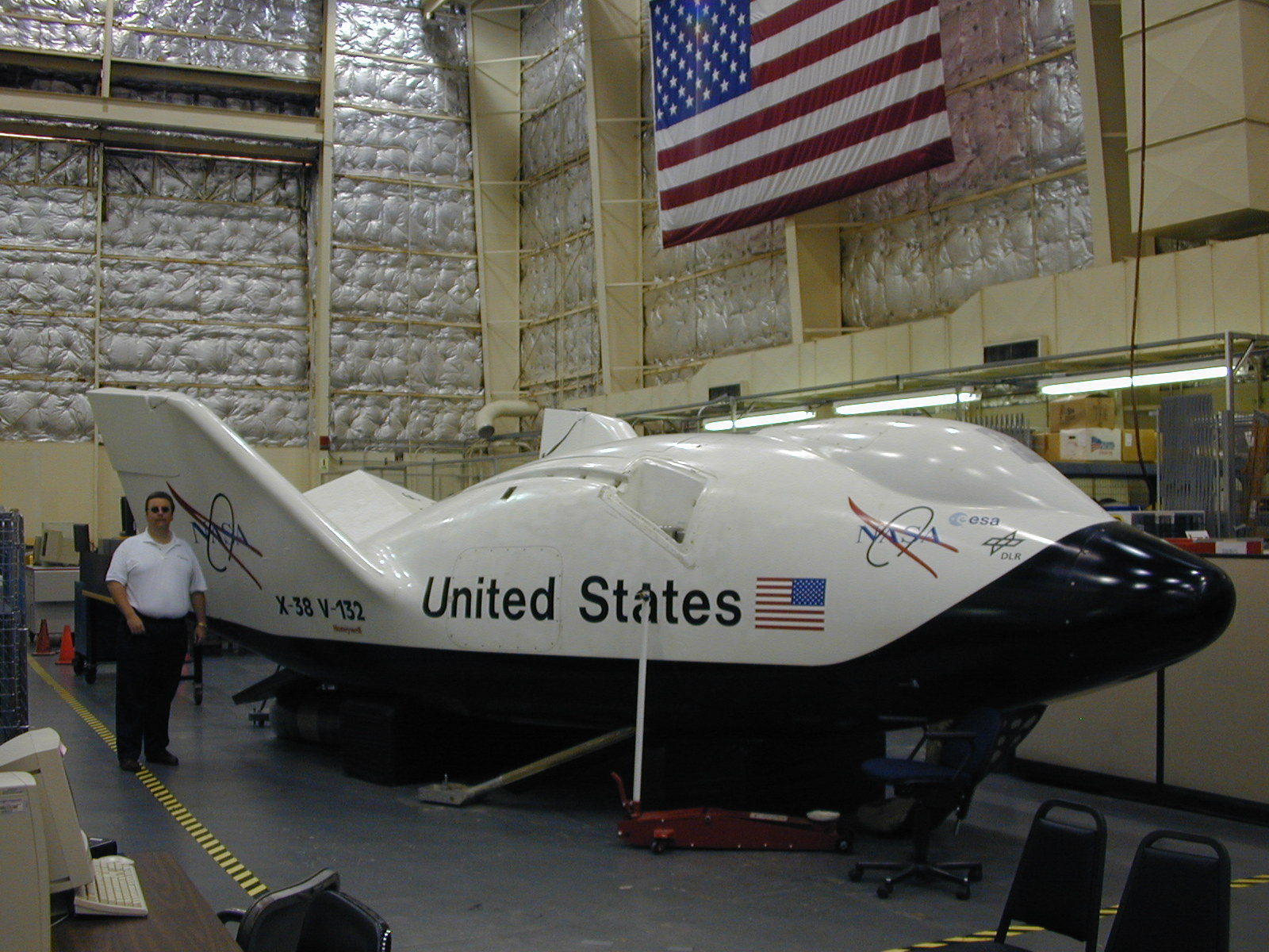 The X-38 Crew Return Vehicle (CRV) was a prototype for a wingless lifting body reentry vehicle that was to be used as a Crew Return Vehicle for the International Space Station (ISS). The X-38 was developed to the point of a drop test vehicle. Its development was cancelled in 2002. Vehicle V132 inside building 220 at the Johnson Space Center. The uploader is in the picture at left, picture taken via timer. Personality rights considerations apply for reuse, please contact uploader with questions or concerns.